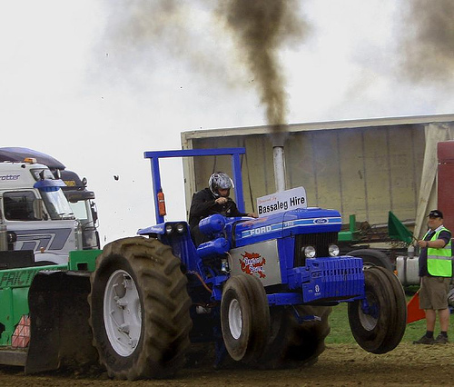 At the Somerset Steam Spectacular.